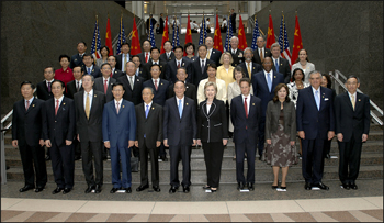 The first U.S.-China Strategic and Economic Dialogue was held in Washington, DC on July 27th and 28th.